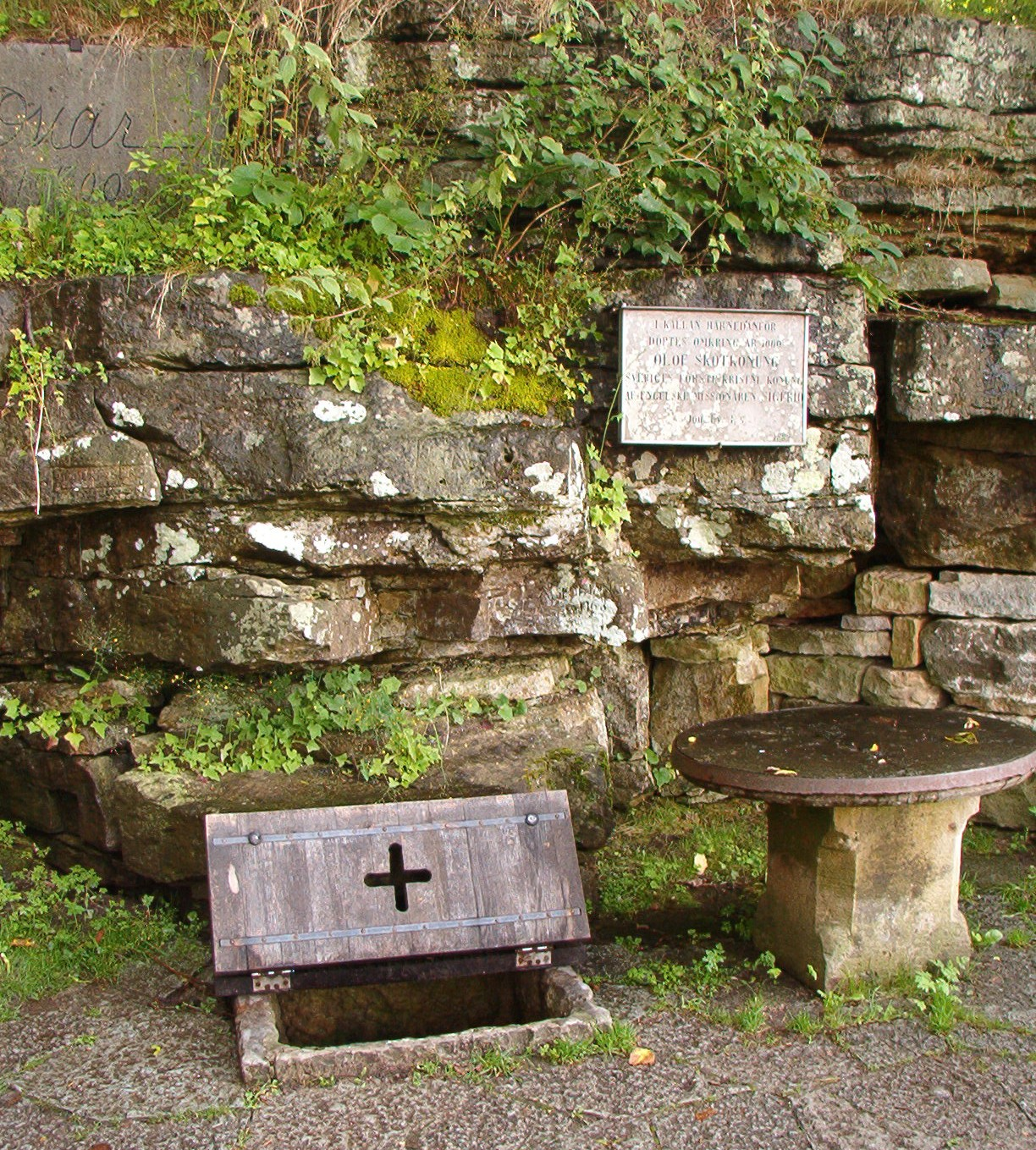 The well where Olov Skötkonung may have been baptized Up left is an carving with the autograph of King Oscar II of Sweden. The sign reads "I källan här nedanför döptes omkring år 1000 OLOF SKÖTKONUNG Sveriges förste kristne konung af engelske missionären Sigfrid" ("In the well below the first Christian King of Sweden, Olof Skötkonung, was baptized around year 1000 by the English missionair Sigfrid") Date: Aug 10, 2005.